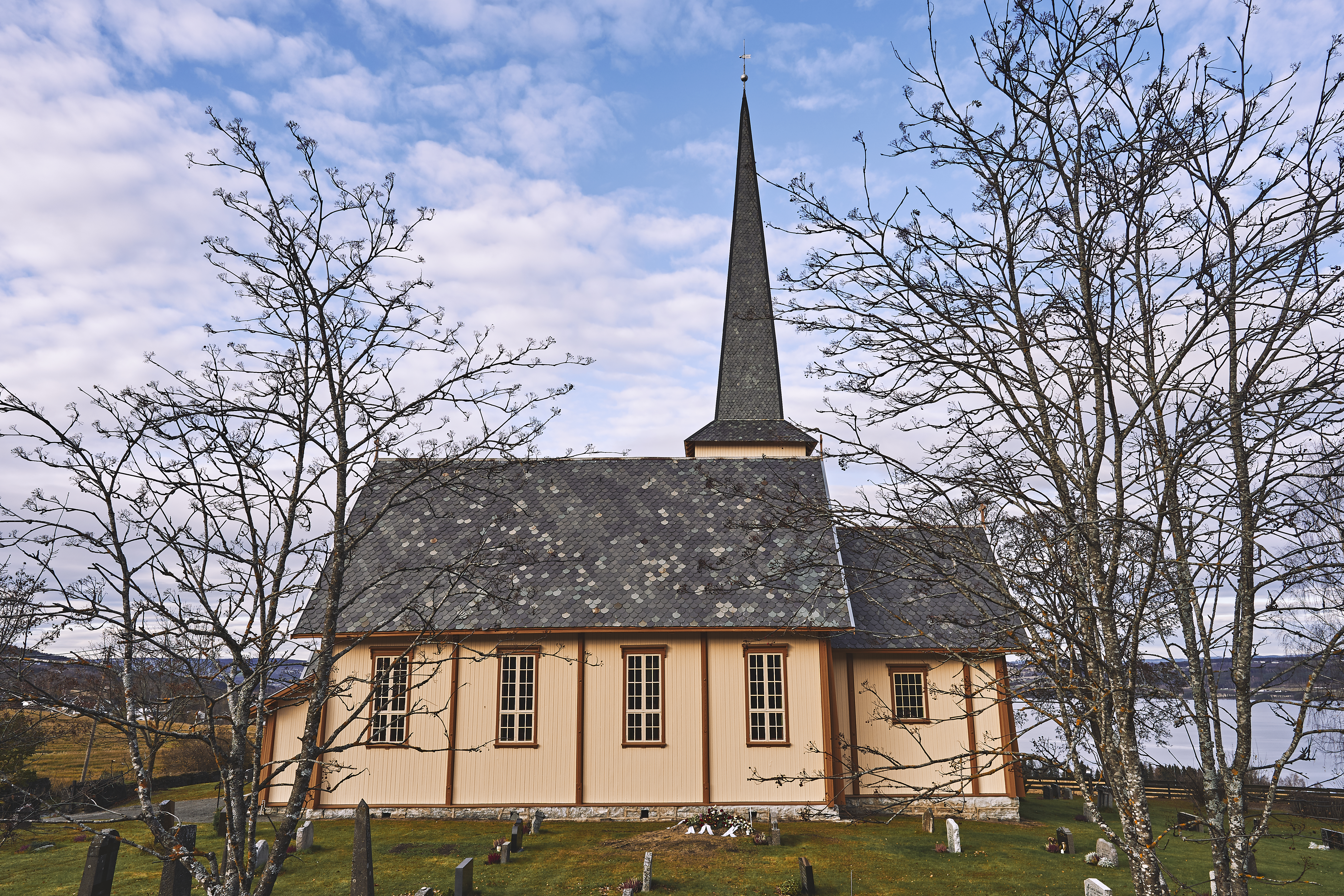 Nordlia Church, finally brought back to its original color palette, after being painted simple white for decades.